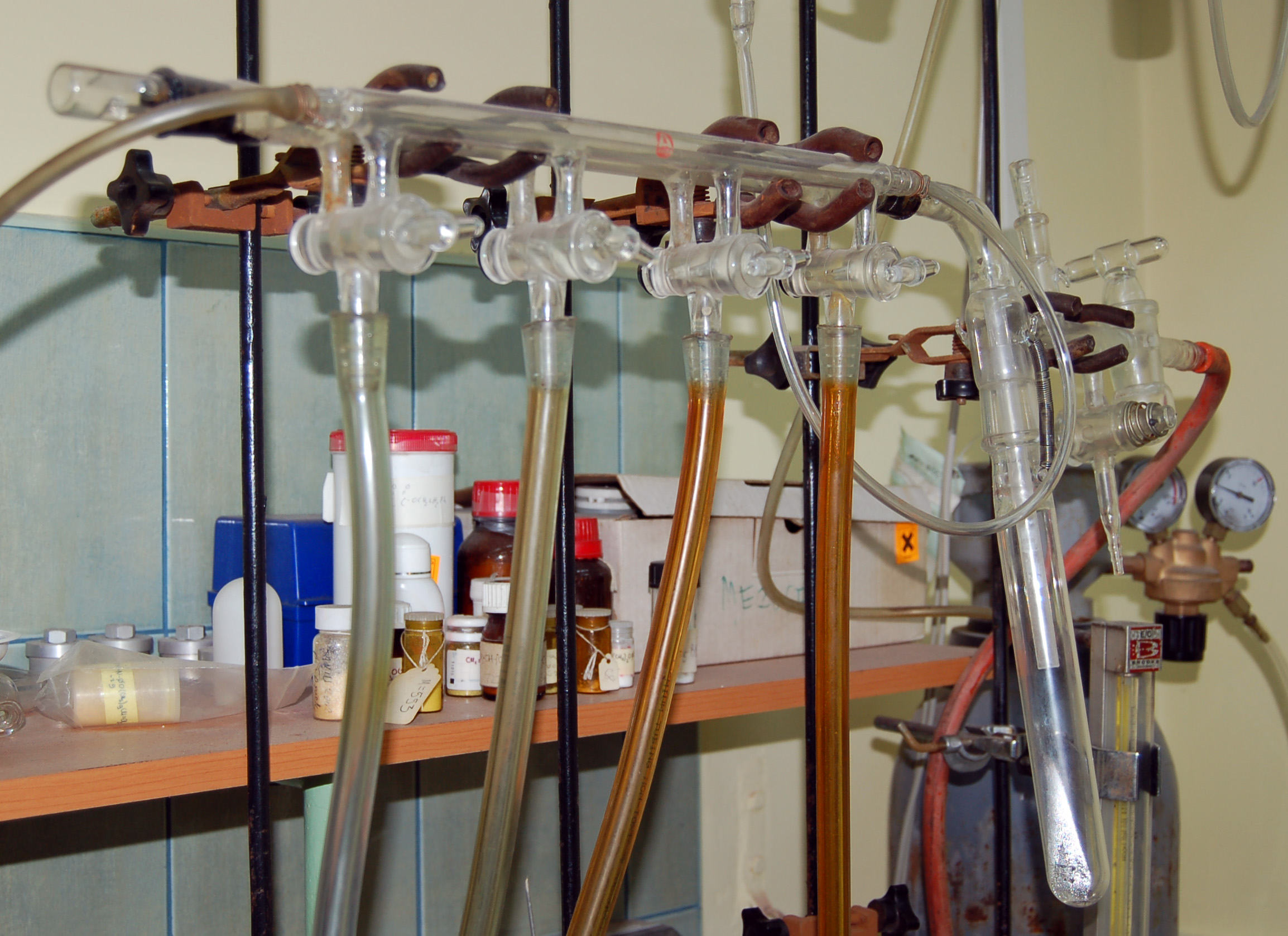 Double vacuum line - picture taken at CBMiM PAN